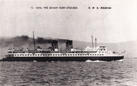 Japanese ferry Toya Maru which was lost with 1,200 passengers and crew off Hokkaido, Japan on 26 September 1954.